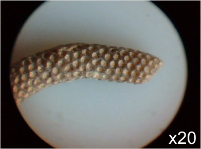 Silurian sea bed fossils collected from Wren's Nest Nature Reserve, Dudley UK. June 2014.